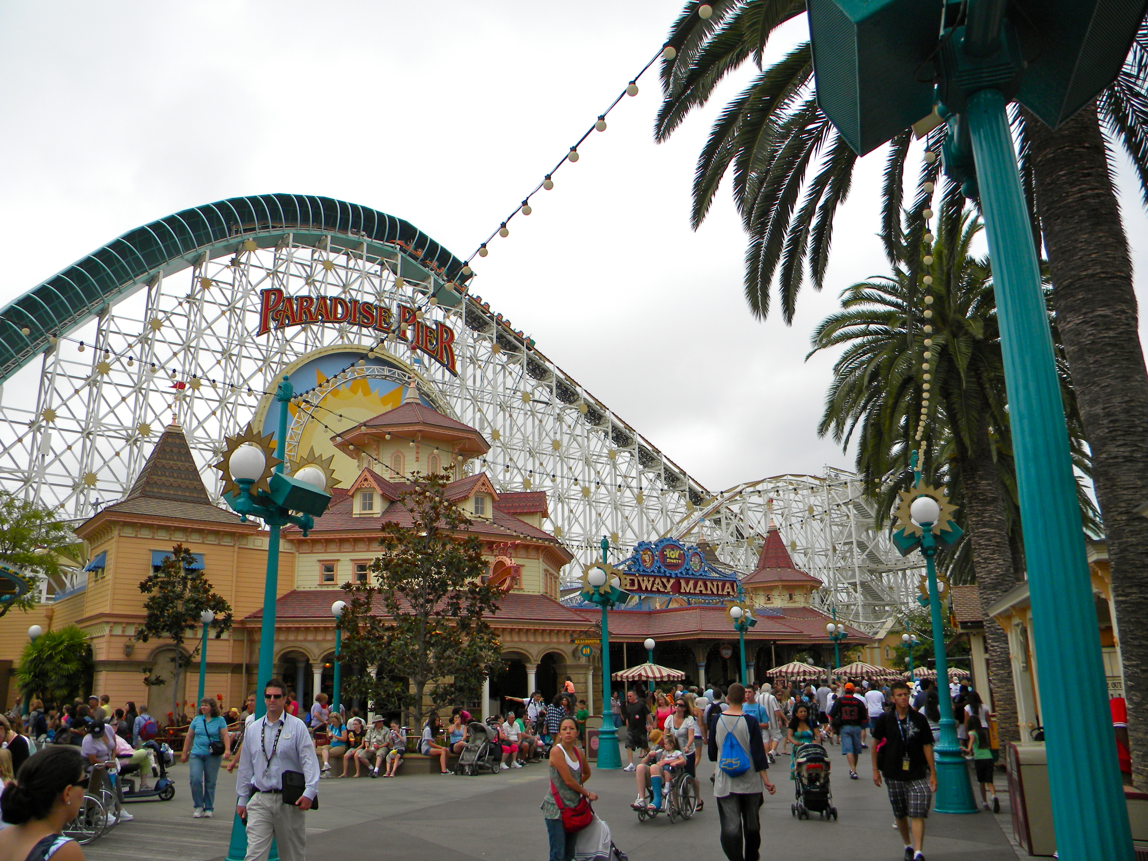 Paradise Pier and Toy Story Midway Mania at Disney California Adventure, a theme park in Anaheim, California